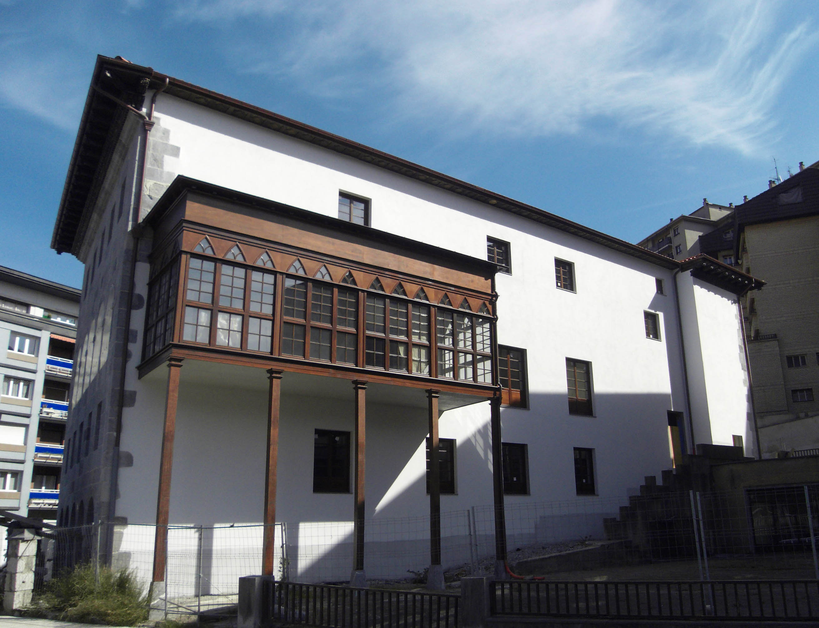 Agirre palace rear facade and bow window, while restauration works, Deba (Guipuscoa, Basque Country)